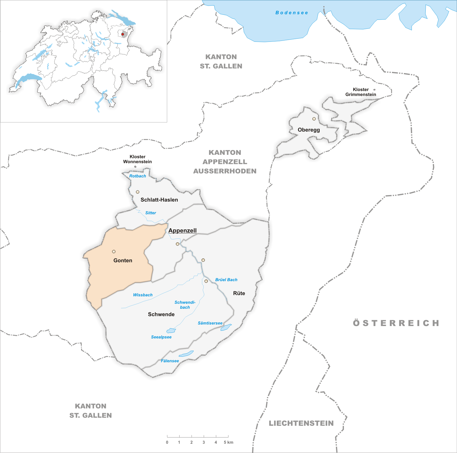 Municipality of Gonten Artist: Tschubby